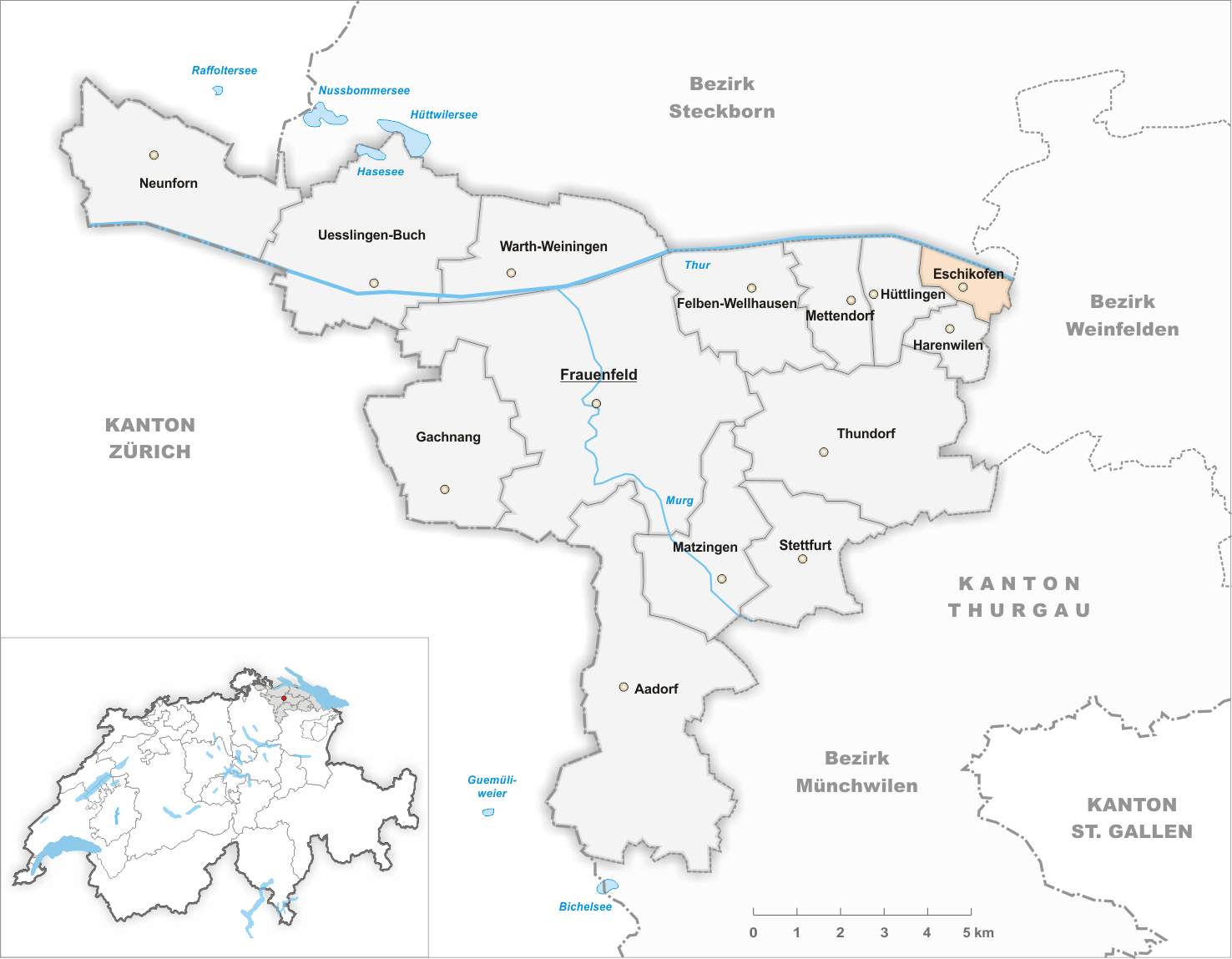 Municipality Eschikofen